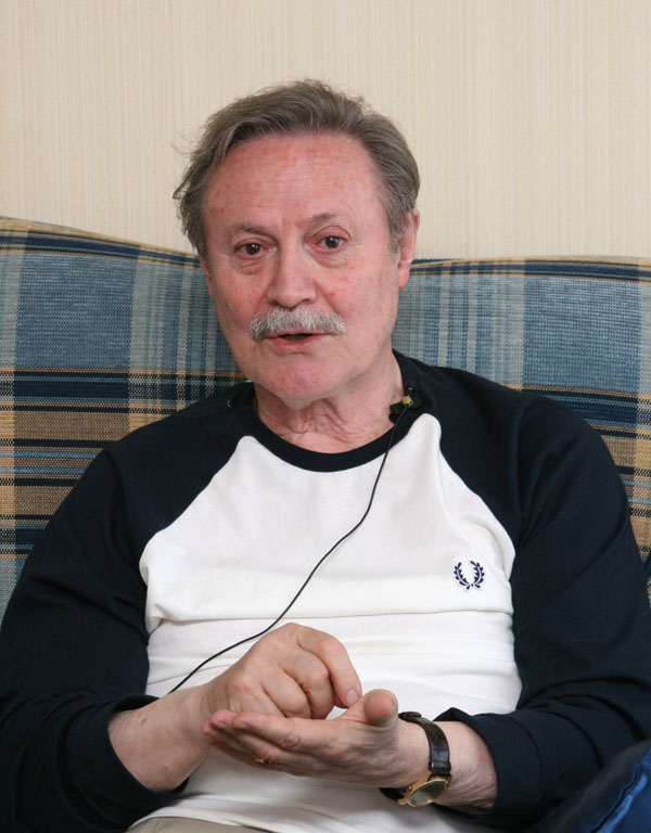 The actor, People's Artist of the USSR Yuri Solomin